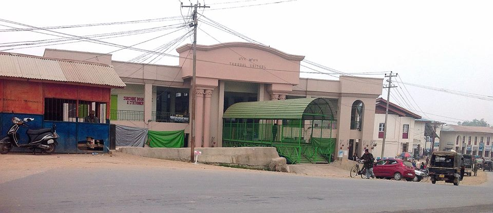 newly constructed market of Thoubal town